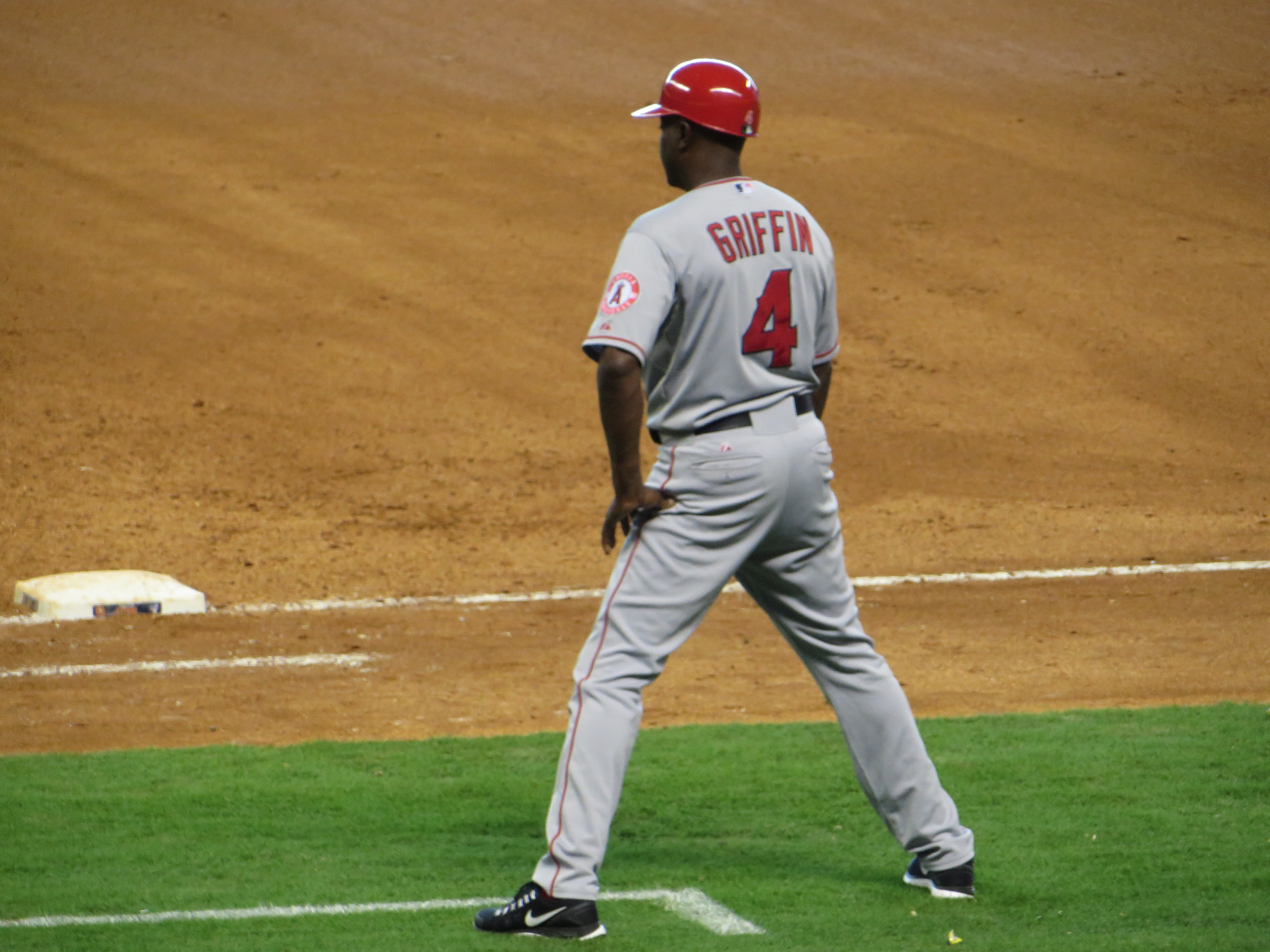 Alfredo Griffin coaches first base during a June 29, 2013 game between the Los Angeles Angels of Anaheim and the Houston Astros.